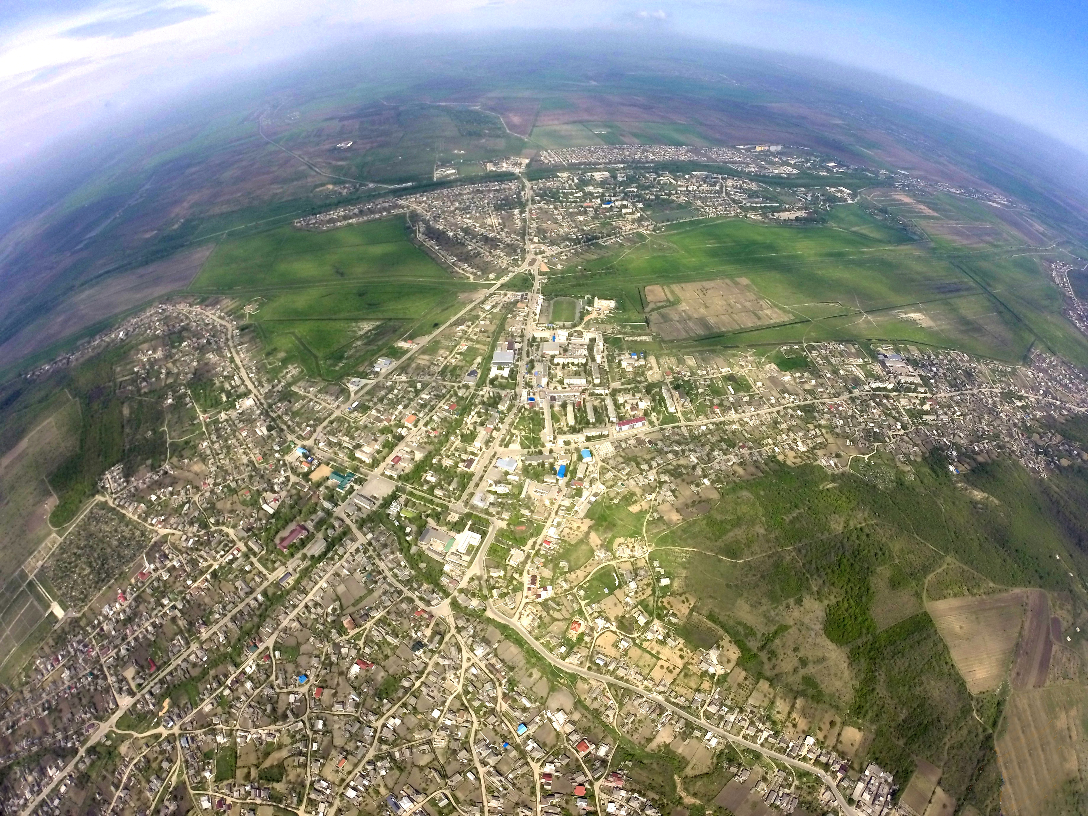 Căușeni de la 800 metri înălțime